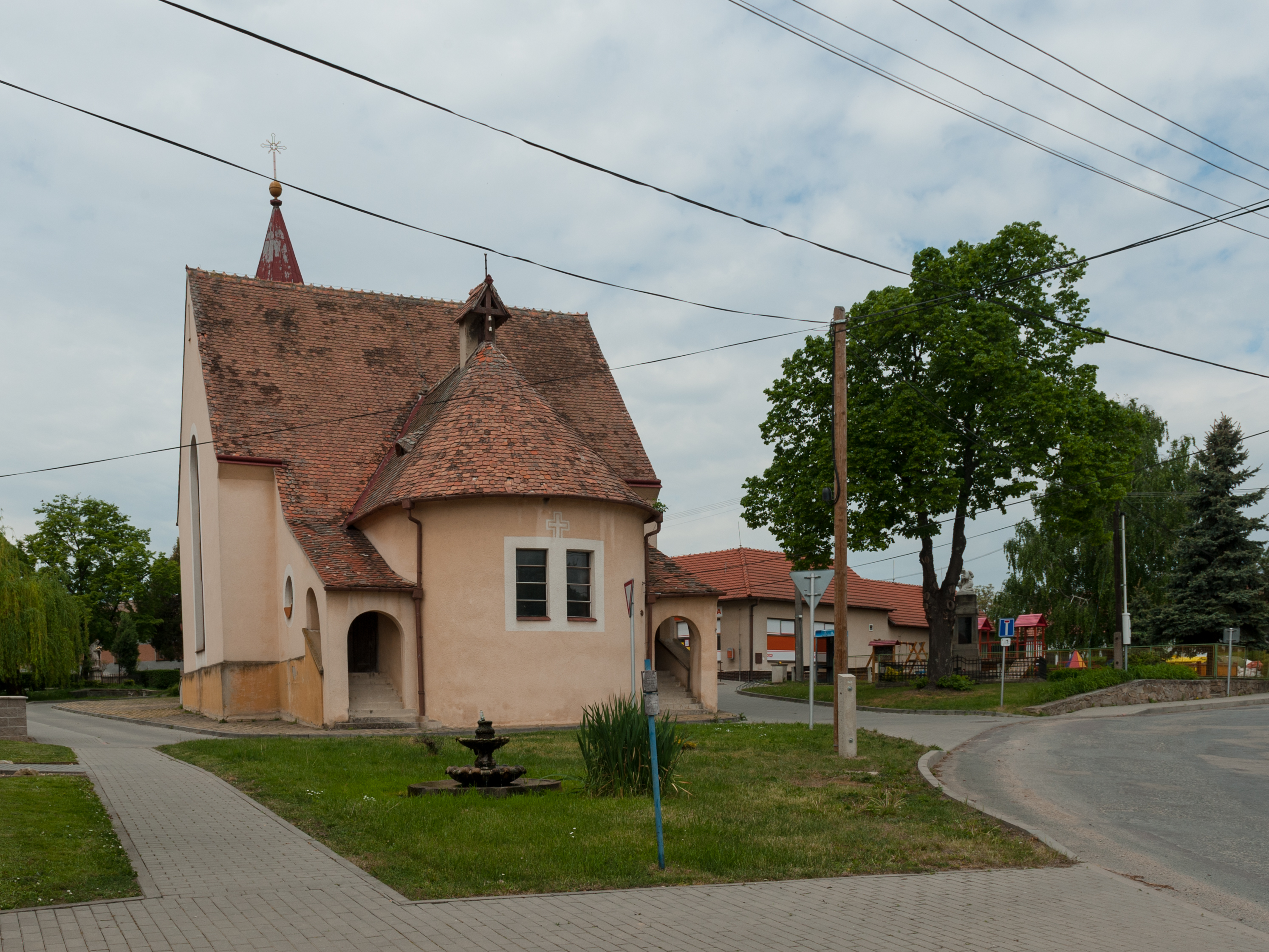 Wikitown Hustopeče: Mackovice